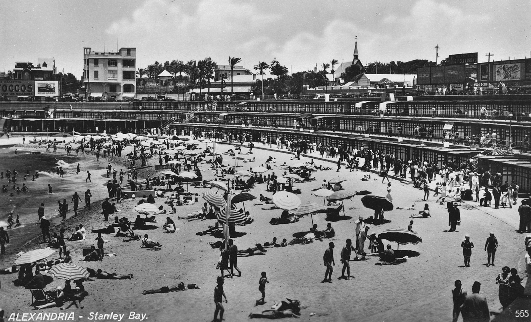 041 1942 - Stanley Bay beach in Alexandria, Egypt